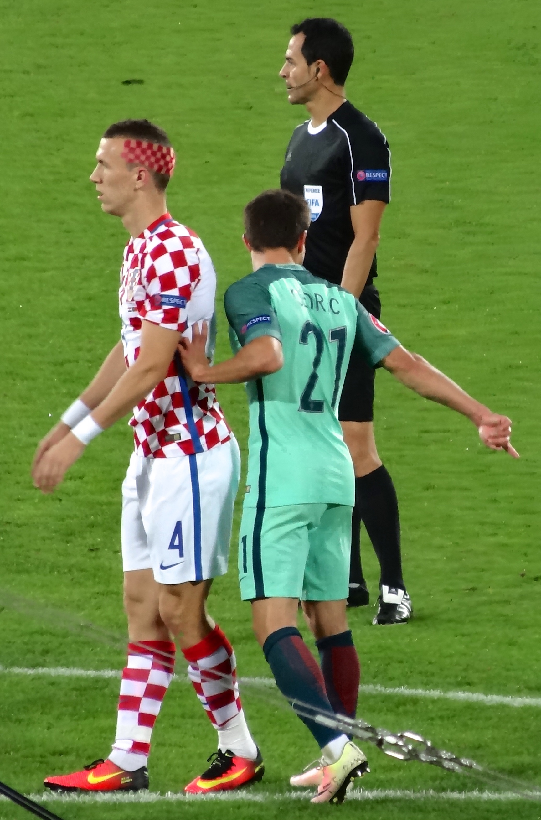 Perišić (Croatia) vs Cedric (Portugal) - 2016